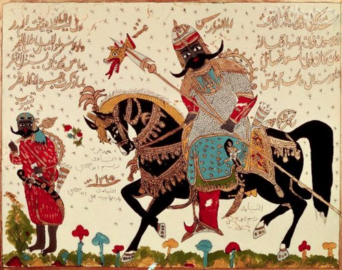 Antarah bin shadad old manuscript